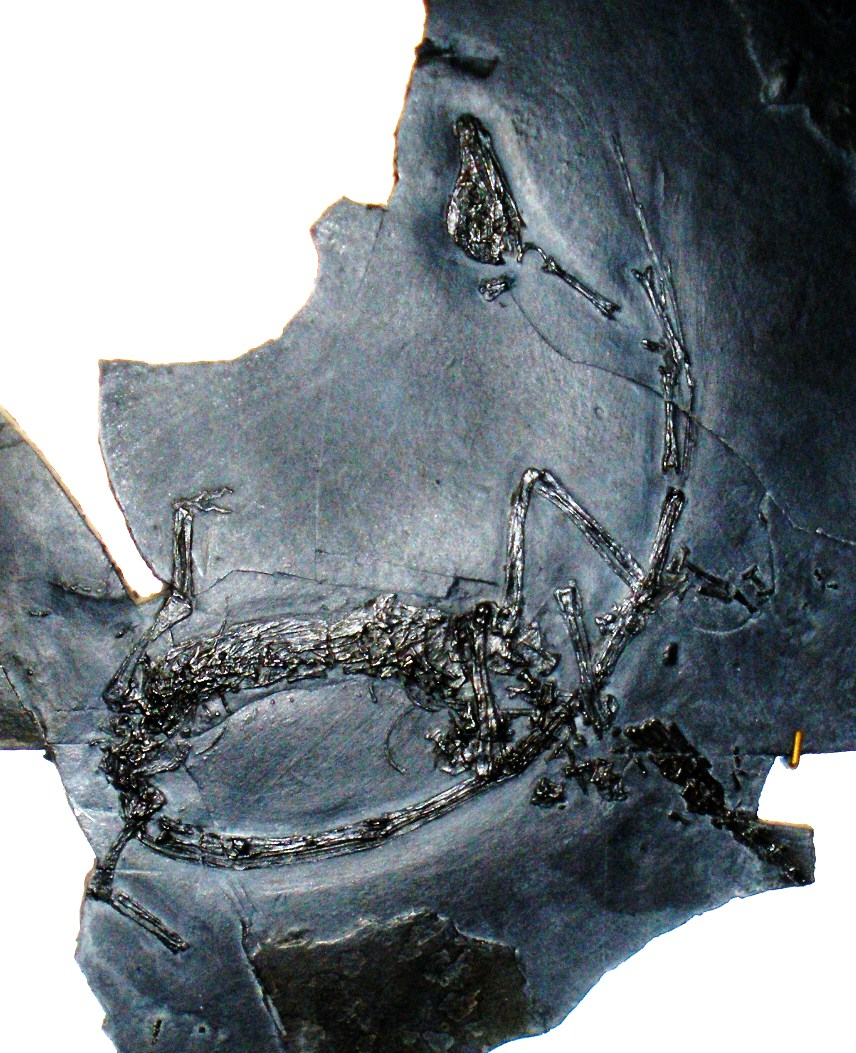 (Copy? of) the Neotype of Tanystropheus longobardicus Bassani 1886 from the „Scisti Bituminosi“ („Grenzbitumenzone“), Upper Triassic, of the Monte San Giorgio (Ticino, Switzerland), on display at the Museo dei Fossili di Besano (Varese, N Italy). The original fossil is accessioned in Zurich under the catalogue no. PIMUZ T 2791.